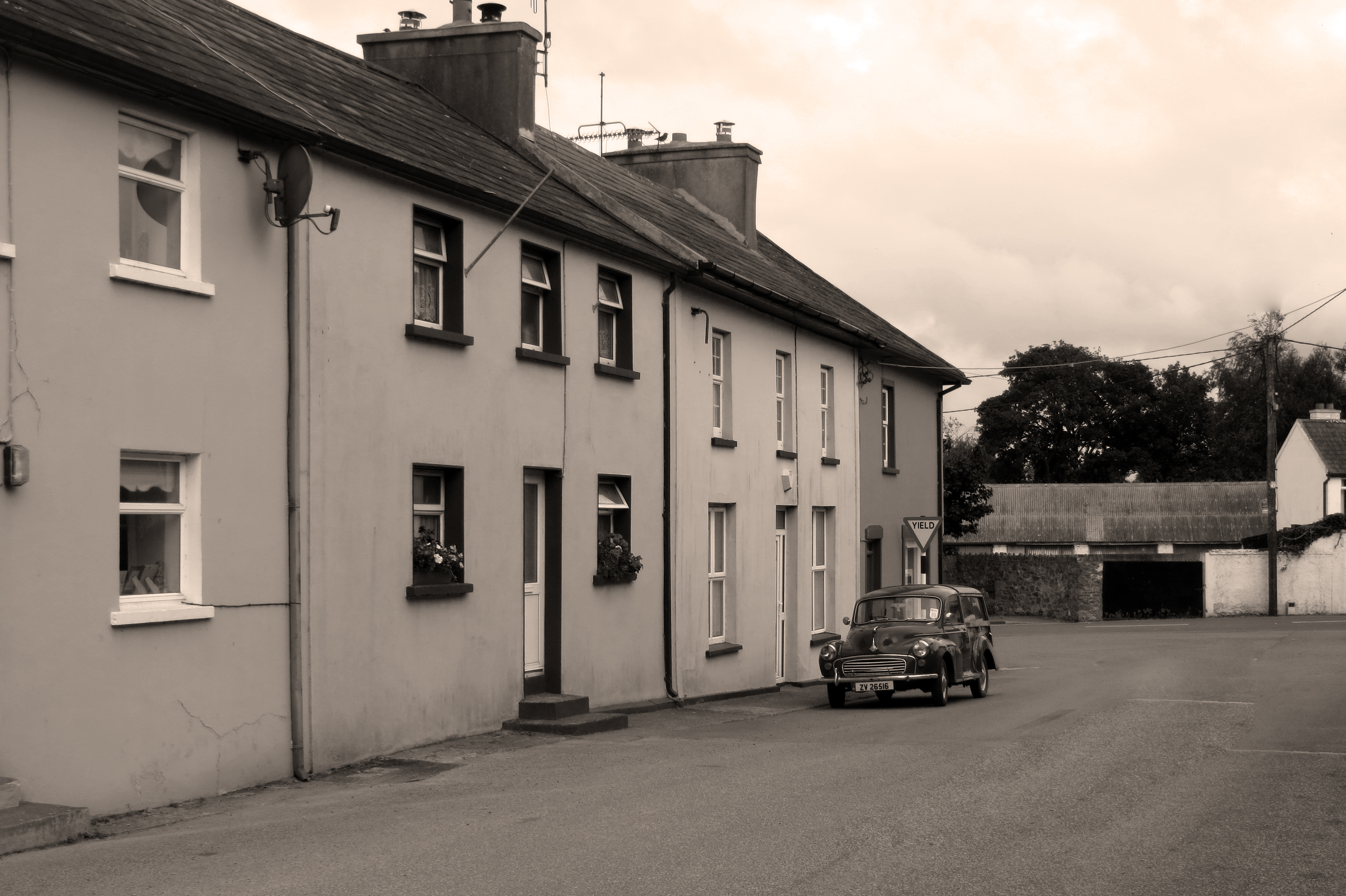 Picture Perfect